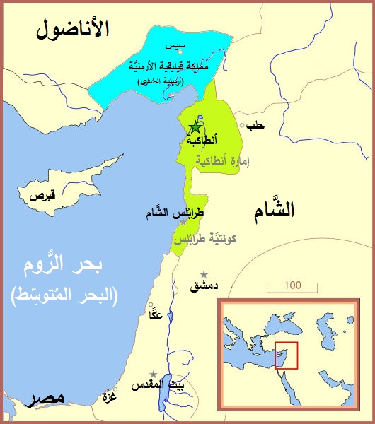 Map of Little Armenia, Principality of Antioc and Tripoli in Masry